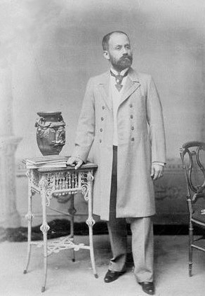 Photo of Cipriano Castro, appeared at Chicago Daily News in 1902.